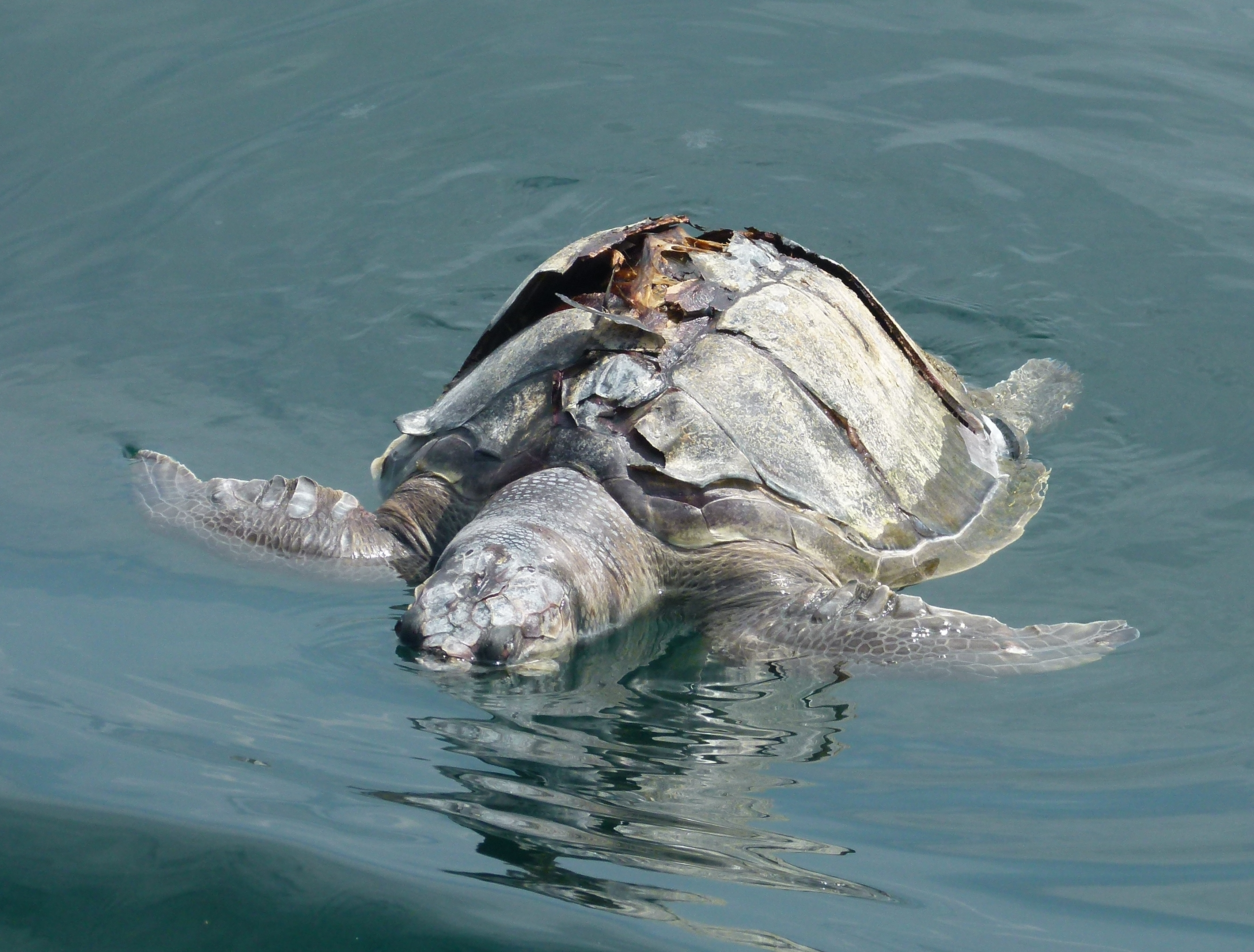 Dead olive ridley sea turtle in the Arabian sea, possibly killed by propeller of boat